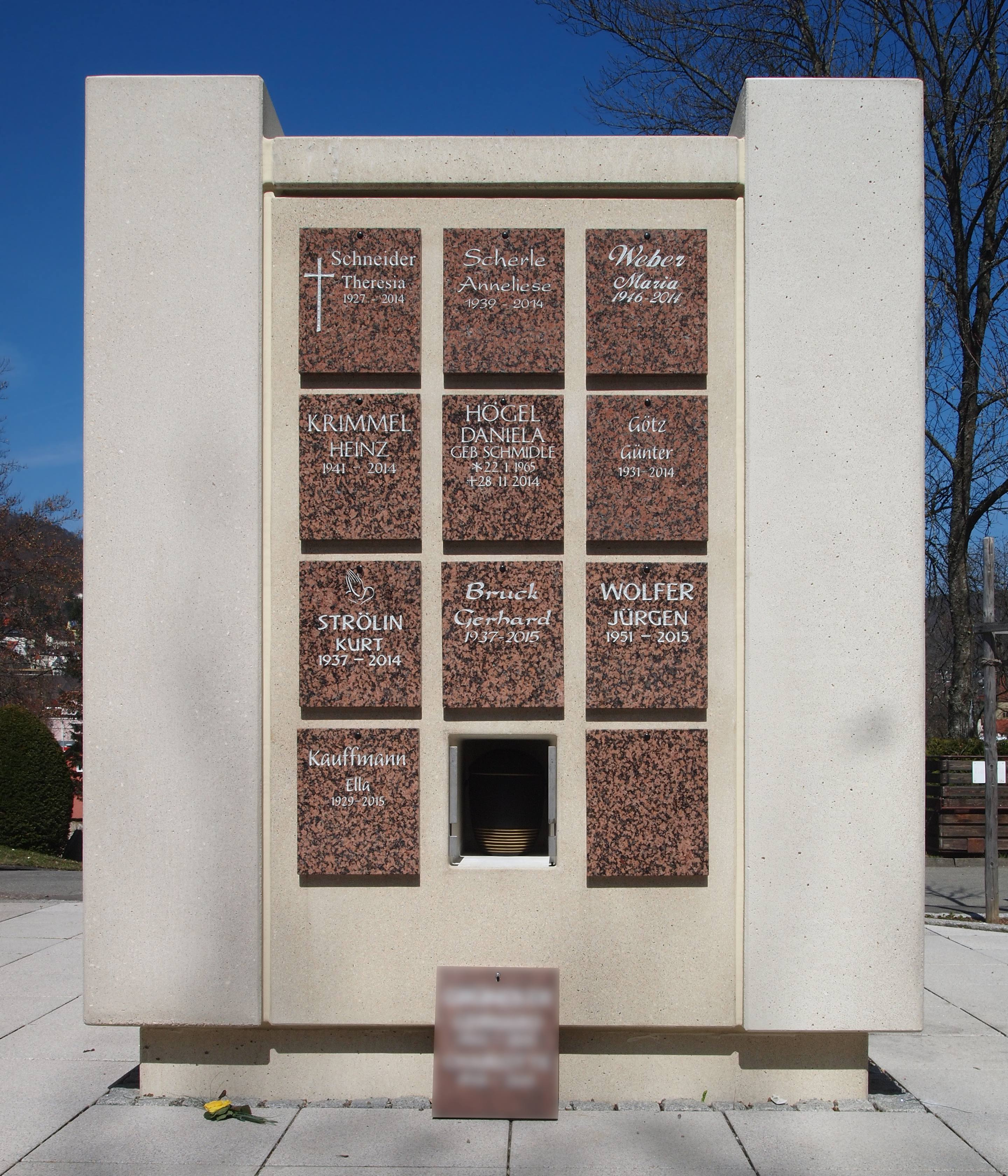 A columbarium in Germany, one urn niche is open during a funeral